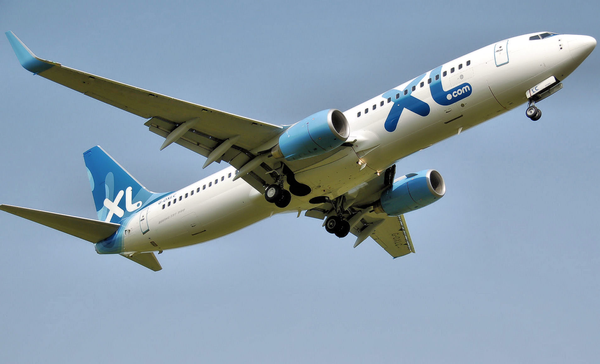 XL Airways Boeing 737-800 (G-OXLC) taking off from London Gatwick Airport, England.